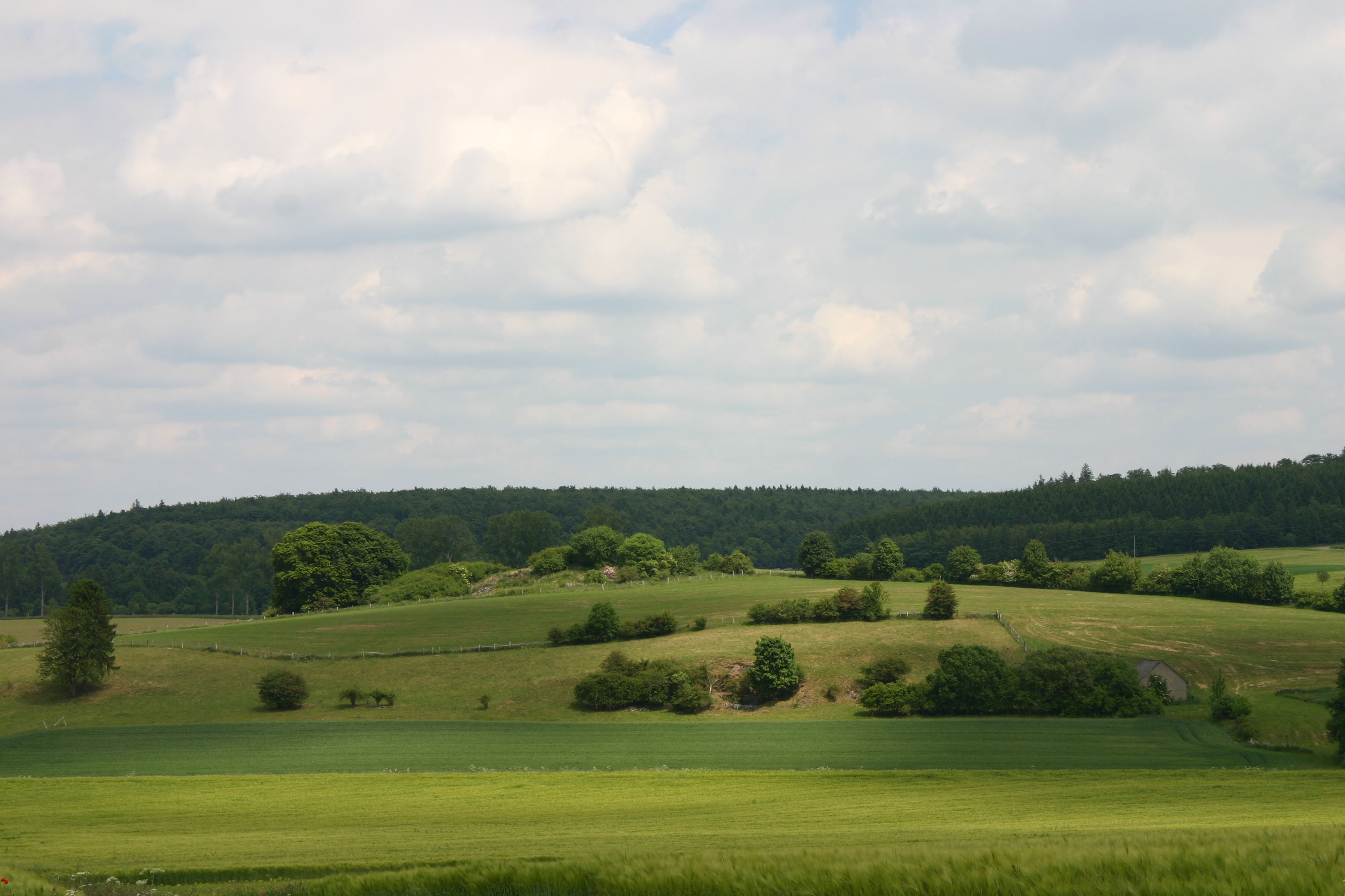 Bereich Wolfsknapp im Naturschutzgebiet_Schwelge / Wolfsknapp.